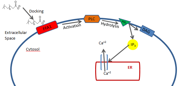 Simple representation of how FFA1 is linked to increased cytosolic [Ca2+]